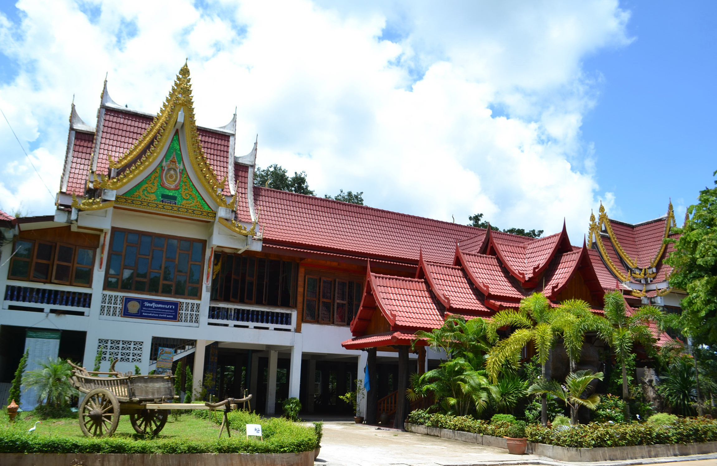 Wat Khung Taphao Ban Khung Taphao, Khung Taphao subdistrict, Mueang Uttaradit, Uttaradit Province, Thailand. on March 17, 2009.